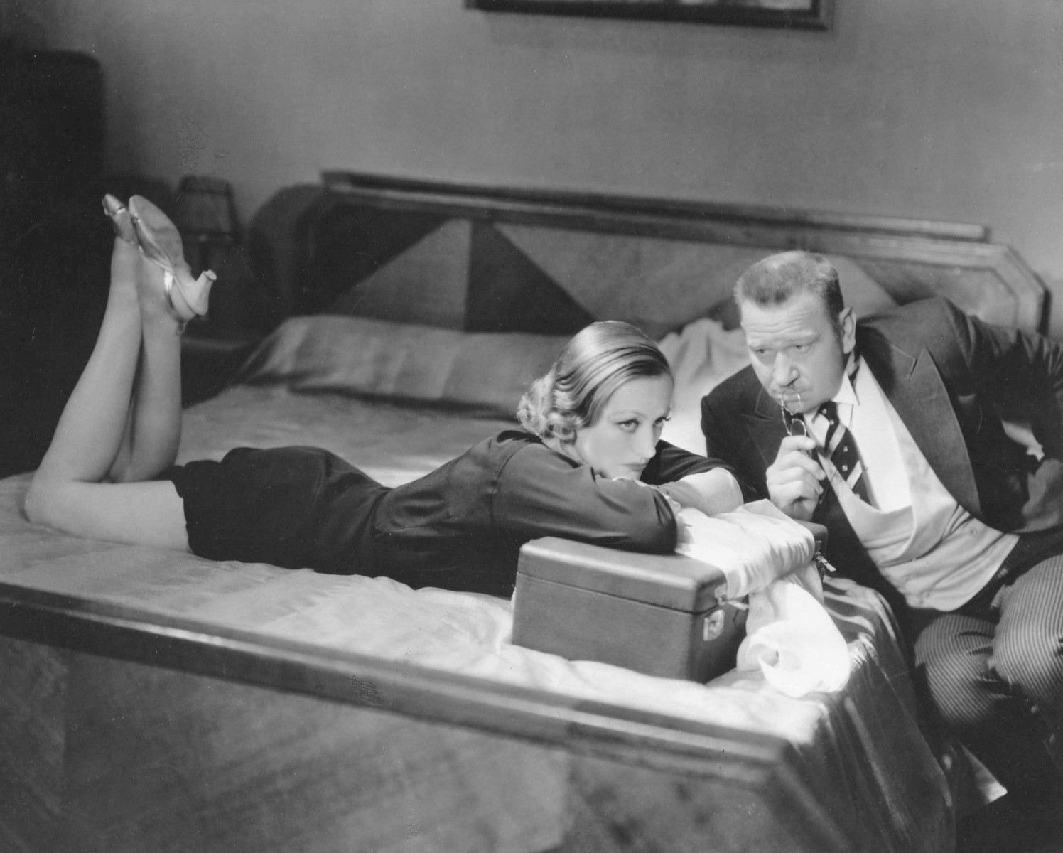 Still from the film Grand Hotel (1932) with Joan Crawford and Wallace Beery.